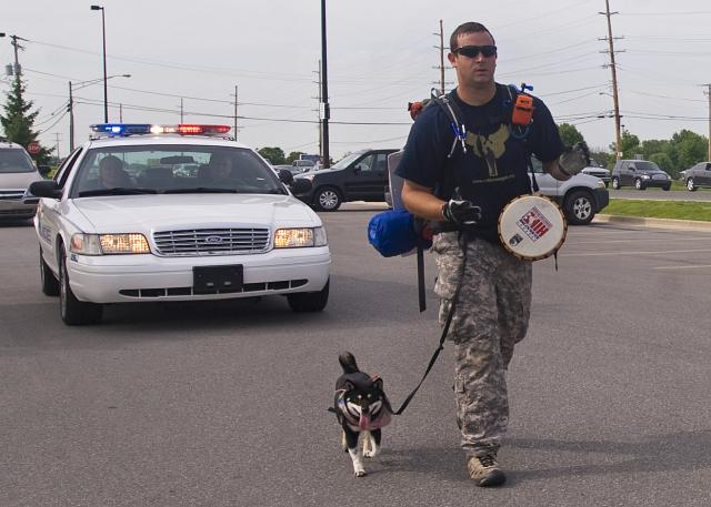 Troy Yocum hikes accross America to raise money for Iraq War veterans.